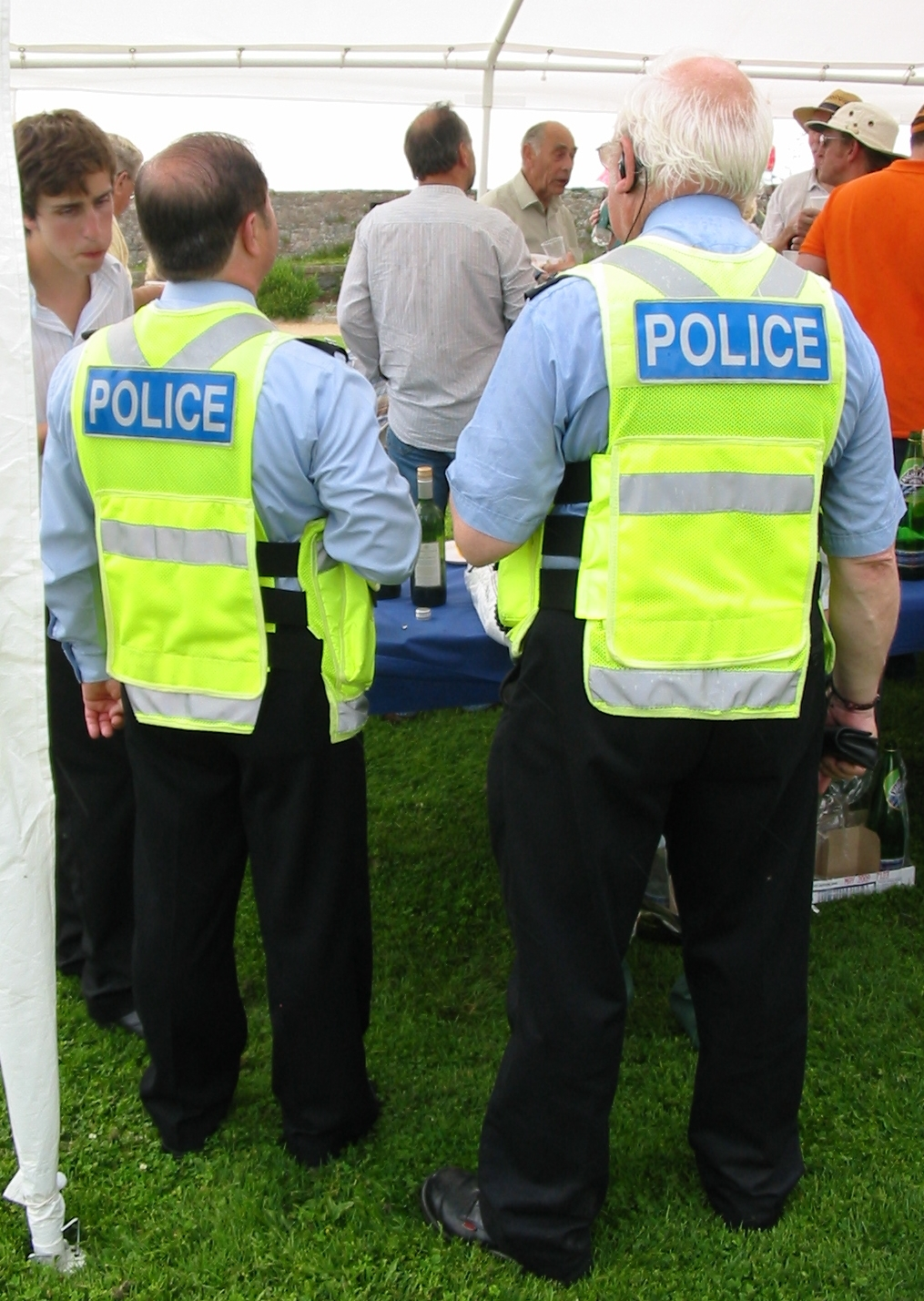 Officers of St Helier Honorary Police on duty at St Helier Day pilgrimage, Jersey